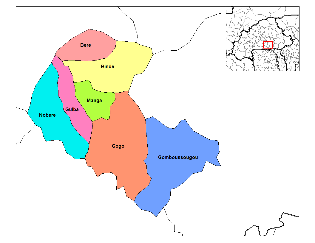 This map has been uploaded by Osiris fancy from to enable the Wikimedia Atlas of the World. Original uploader to was Rarelibra. Osiris fancy is not the creator of this map. Licensing information is below. Map of the departments of Zoundweogo province in Burkina Faso. Created by Rarelibra 03:42, 30 September 2006 (UTC) for public domain use, using MapInfo Professional v8.5 and various mapping resources.